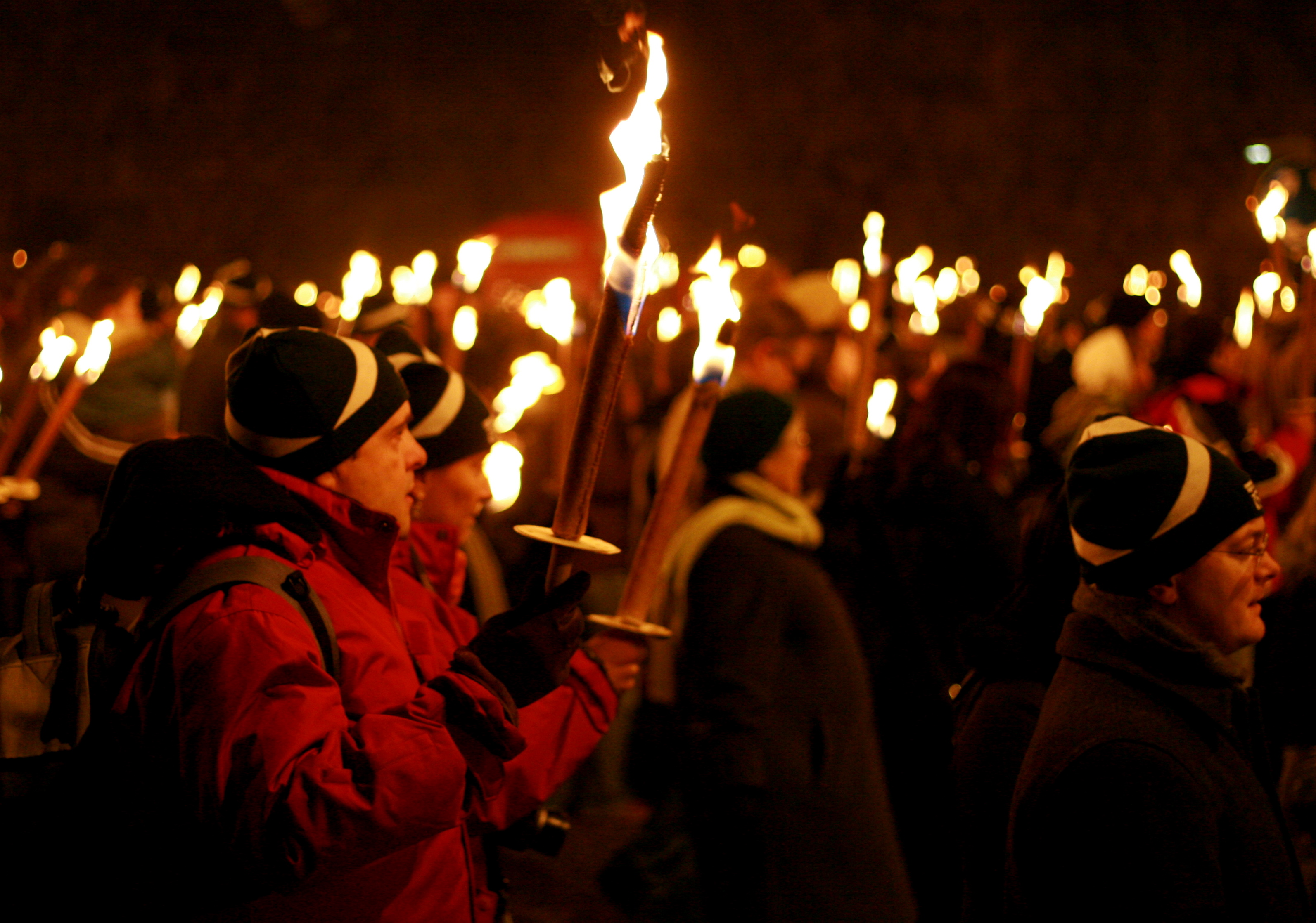 Torchlight procession and fireworks on Calton Hill, Edinburgh, 29 December 2007.